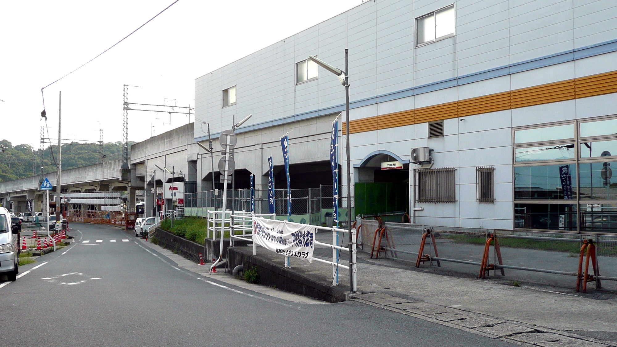 MIYUKITSUJI Station east entrance,Nankai Electric Railway.